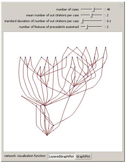 made myself